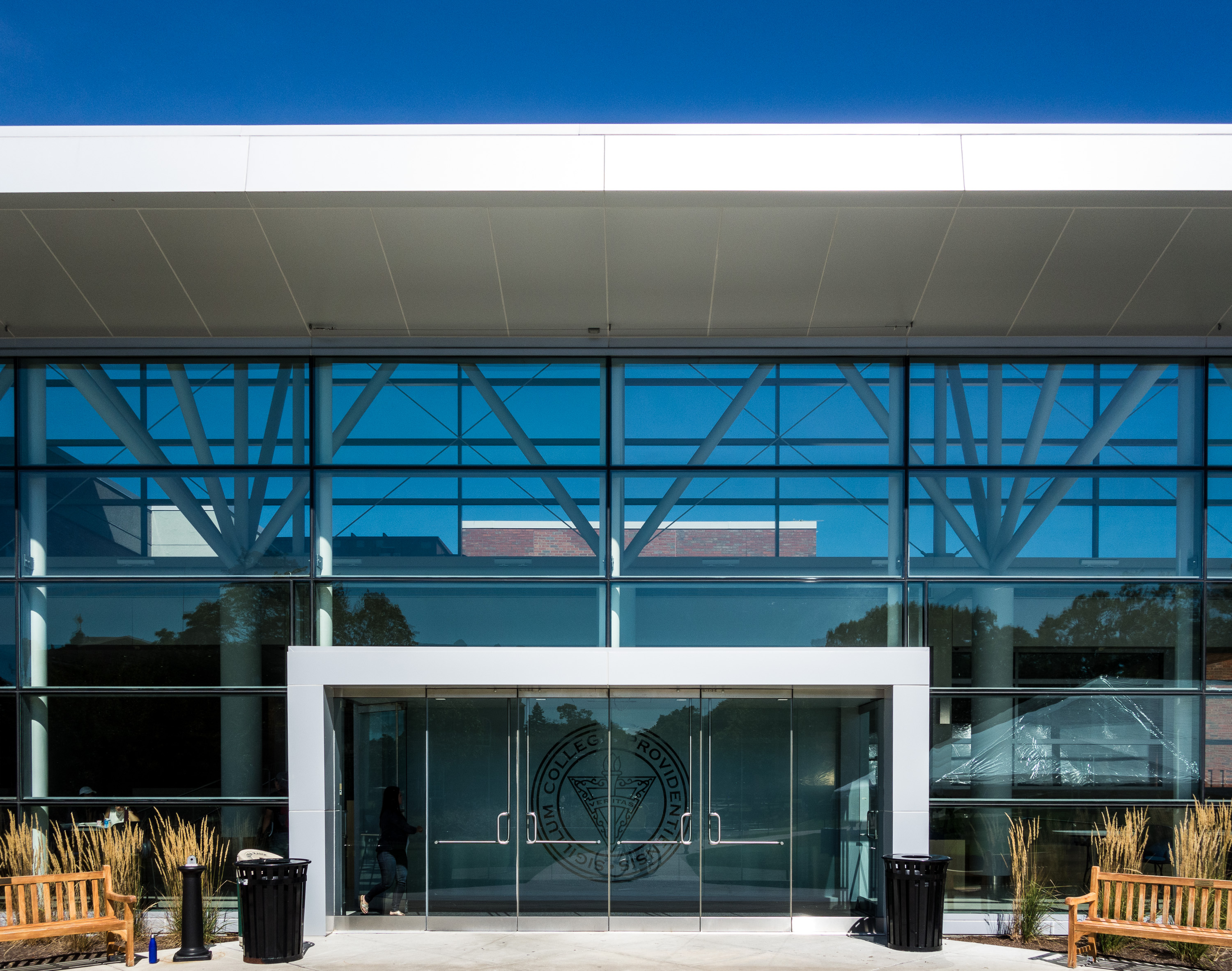 Slavin Center, Providence College, Providence Rhode Island.